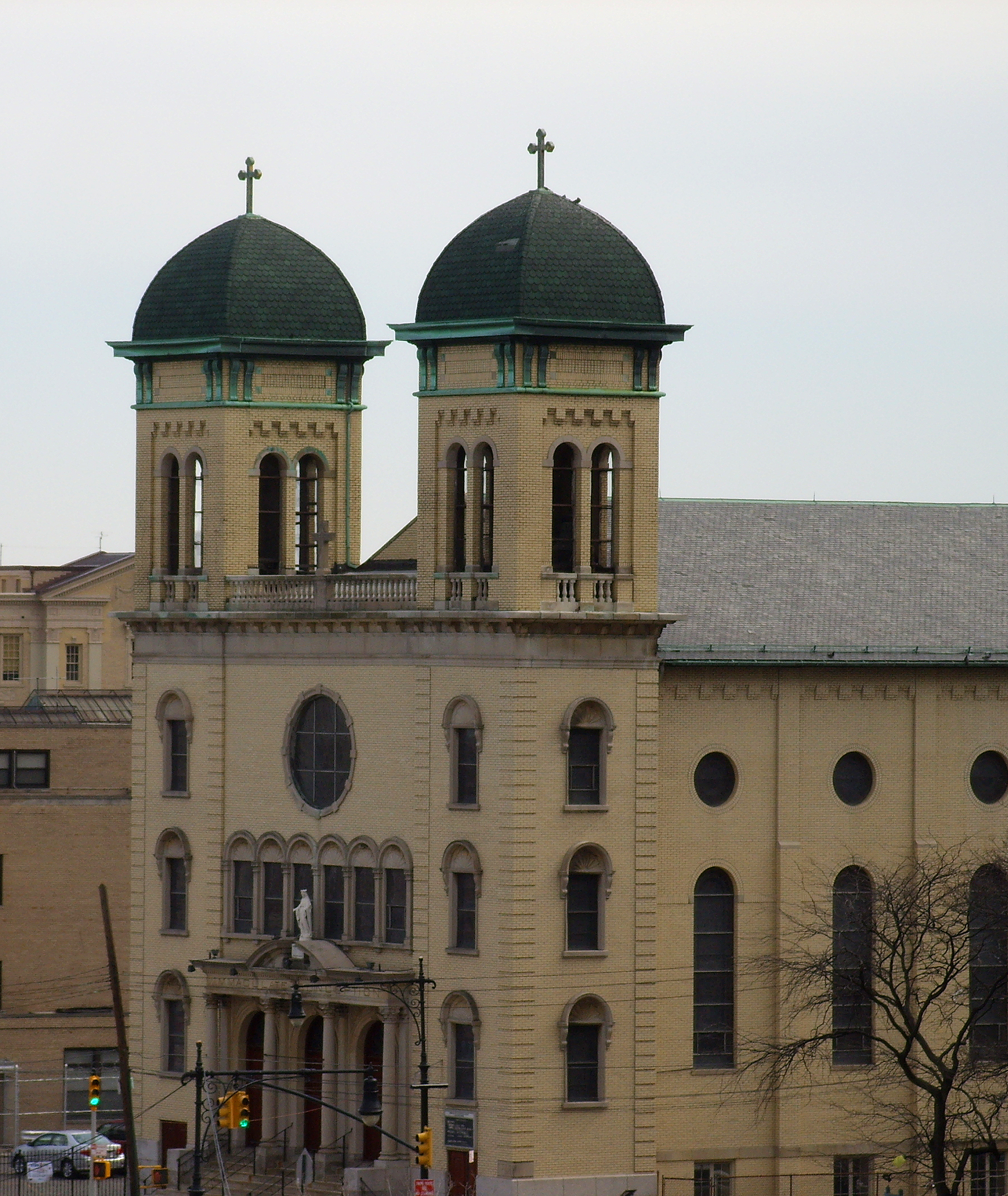 Immaculate Conception Church as viewed from the IRT #2 train station